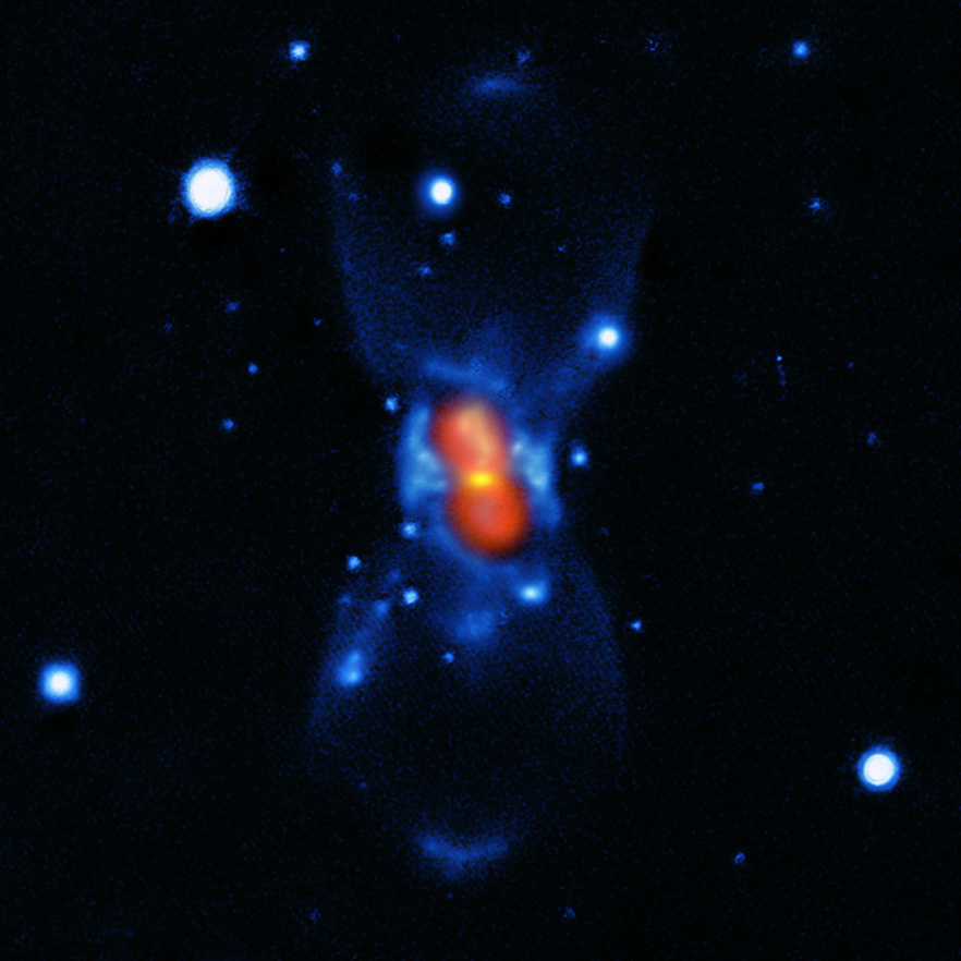 This picture shows the remains of the new star that was seen in the year 1670. It was created from a combination of visible-light images from the Gemini telescope (blue), a submillimetre map showing the dust from the SMA (green) and finally a map of the molecular emission from APEX and the SMA (red). The star that European astronomers saw in 1670 was not a nova, but a much rarer, violent breed of stellar collision. It was spectacular enough to be easily seen with the naked eye during its first outburst, but the traces it left were so faint that very careful analysis using submillimetre telescopes was needed before the mystery could finally be unravelled more than 340 years later.